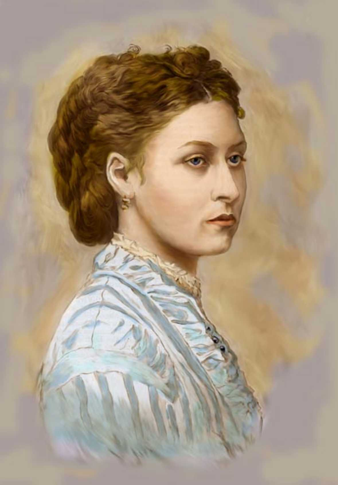 The Princess Louise later Marchioness of Lorne then Duchess of Argyll